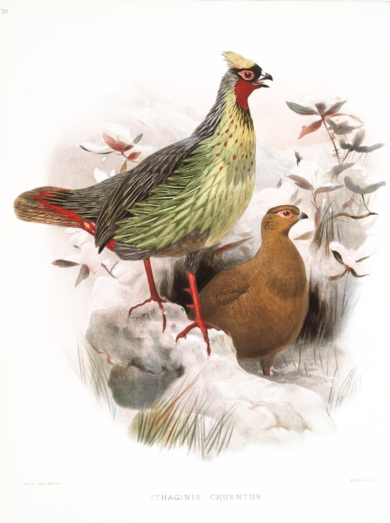 Ithaginis cruentus